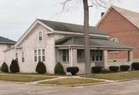 The childhood home of humorist Will Cuppy (1884-1949) at 407 South Jackson Street, Auburn, Indiana, Cuppy's maternal grandfather George W. Stahl (1821-1900), built the original home, now extensively modified, in 1851. His tailor shop stood between the house and the church at right. Cuppy's mother, Frances Stahl Cuppy (1855-1927), used the shop to make and sell embroidery and other fancy needlework. The property passed to her after her father died. She sold it in 1907 and then lived with Nancy J. Martin Casebeer (1843-1918), widow of her mother's cousin Enos Casebeer (1833-1907). This photo was taken in late July or early August 2004.